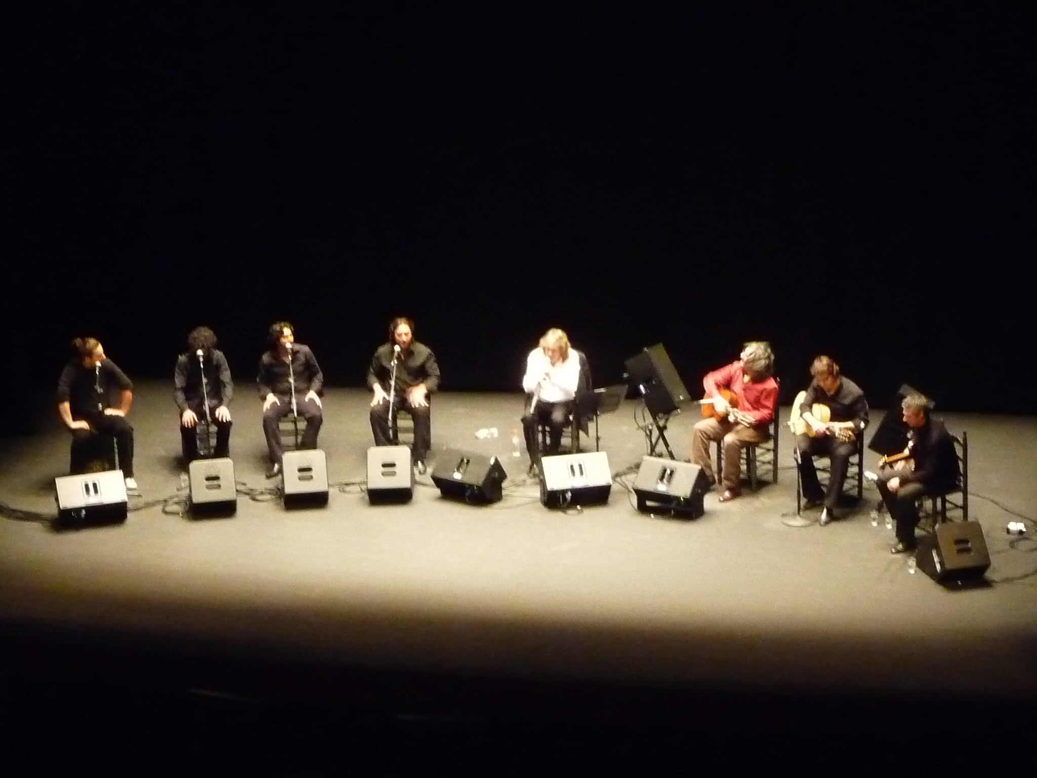 Jose Merce and Moraito Chico concert at Villamarta Theatre in Jerez (Spain)